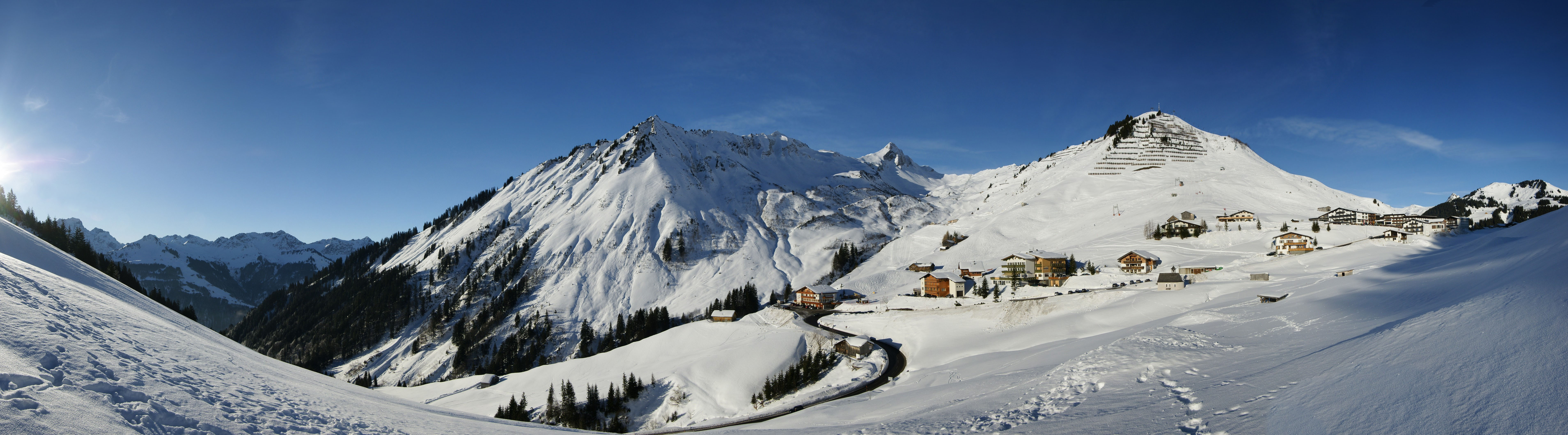 View from the foot of the Zafernhorn in the area of Fontanella-Faschina, from left to right the Bettlerspitze, Rote Wand (2,704 m), Formarin Rothorn, Glattmahd dem Gronggenkopf and the Kellaspitze. The centre of the picture shows the Sonnenköpfle. The prominent peak is the highest mountain of the Bregenzerwaldgebirge: the Glatthorn (2,134 m). The Hahnenkopf is blocked with avanlanche barriers. In the right edge of the photo you can see very small the Hochblanken, the Hohe Licht, the Damülser Mittagsspitze and finally the Elsenkopf, up to which leads the Ugalift. Over the col Faschina you can get to Damüls and into the Bregenzerwald. Over the street Faschina you drive to the left down to the Great Walsertal.